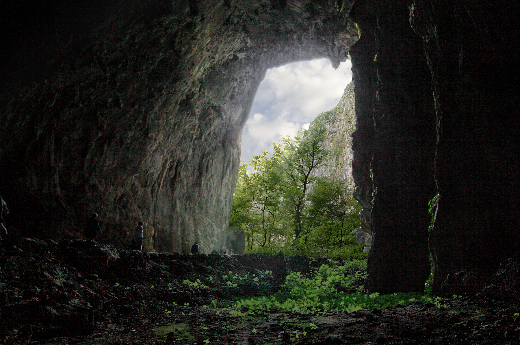 Skocjan Cave, Slovenia; 1986 added to UNESCO-list of World Heritage Sites. Cave used to continue beyond this, but collapsed in prehistorical time.